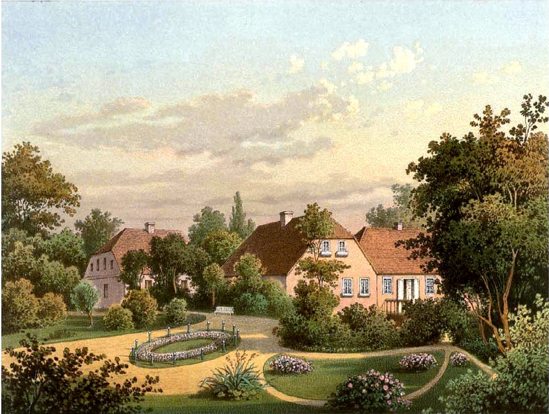 Manor in Lewice